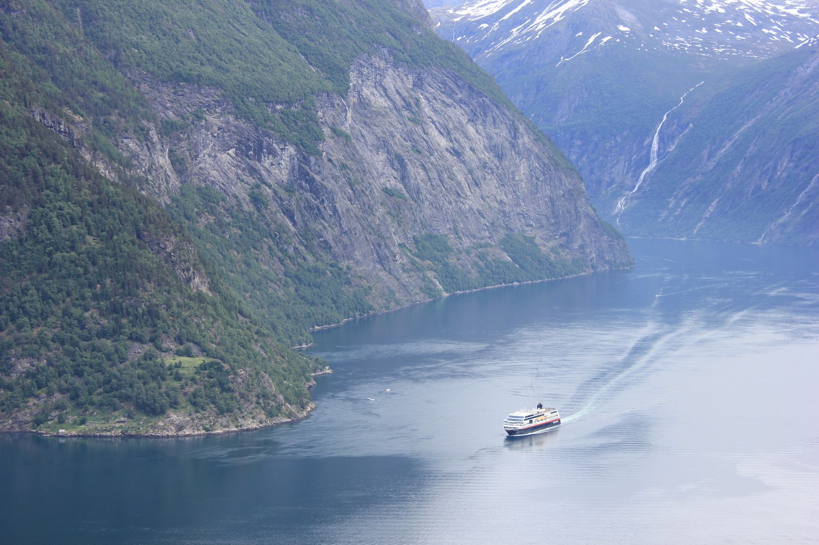 The norwegian costal express passing the abandoned farm of Lundaneset with Matvika farm right behind it